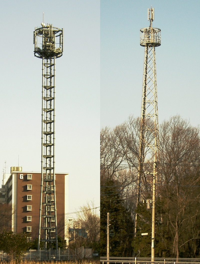 DoCoMo-SoftBank_Mobile_phone_tower Japan